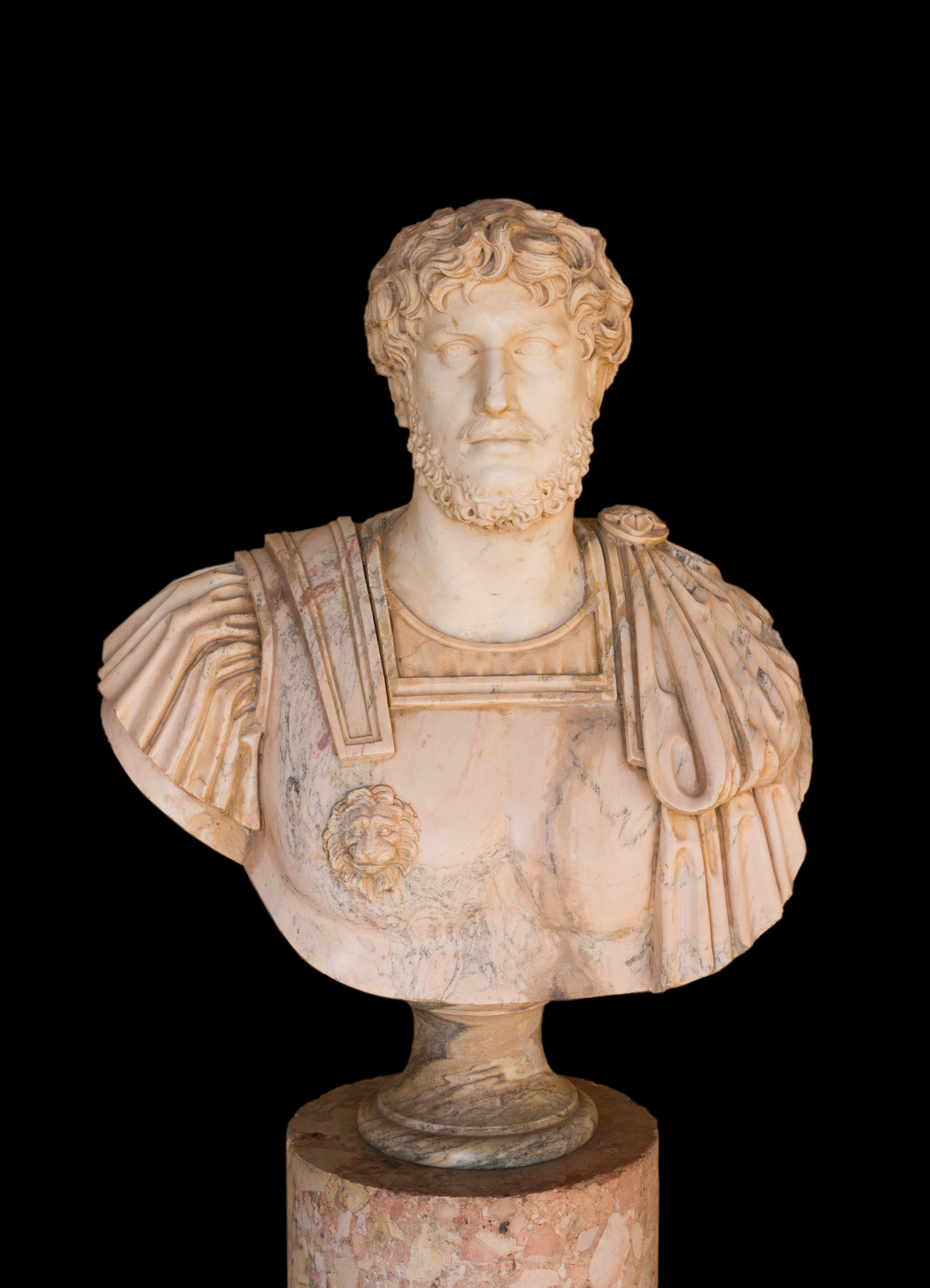 Marcus Aurelius, Caesar Marcus Aurelius Antoninus Augustus (121 - 180), Italian marble bust, 17th-century, Château de Hautefort, Dordogne, France.